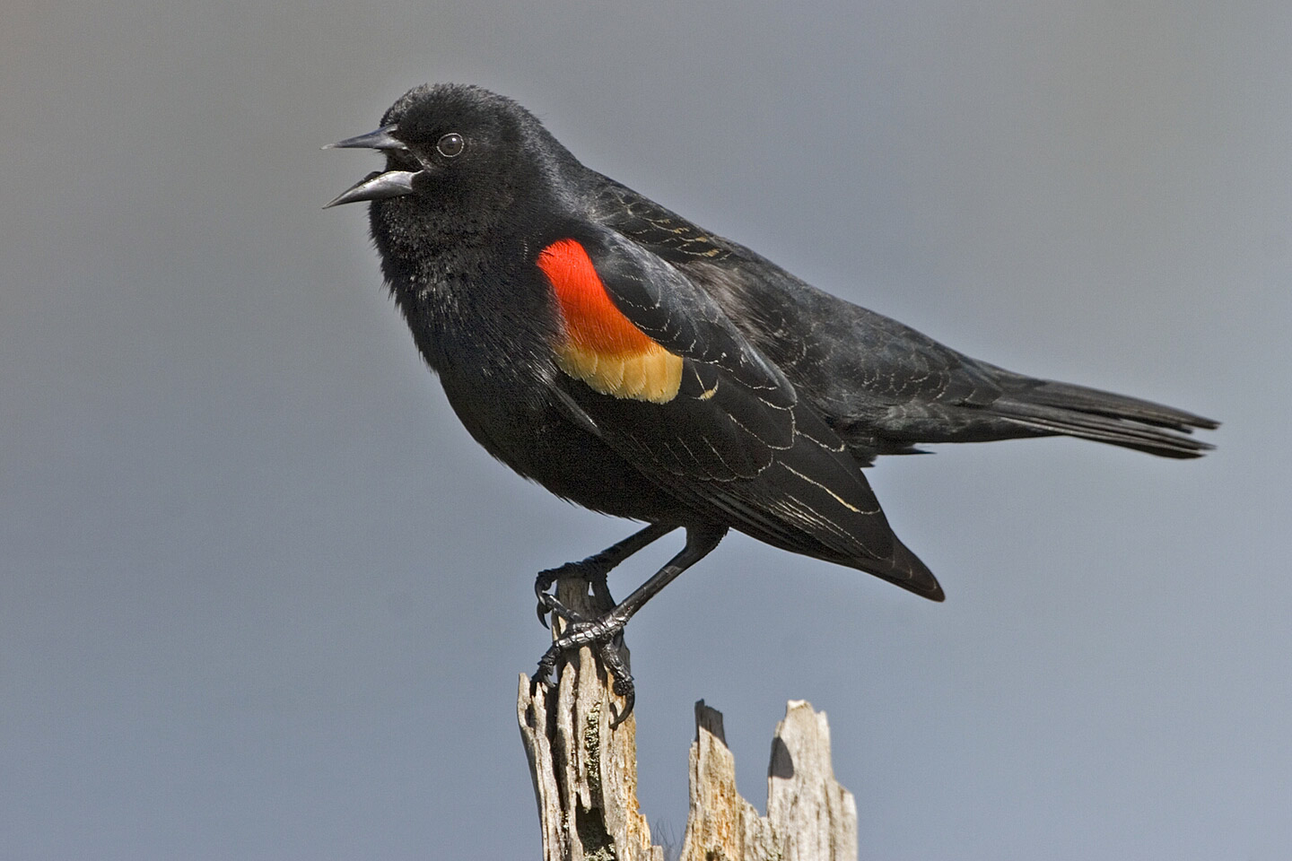 Red-Winged Blackbird (Male), Colony Farm Regional Park, Port Coquitlam, British Columbia